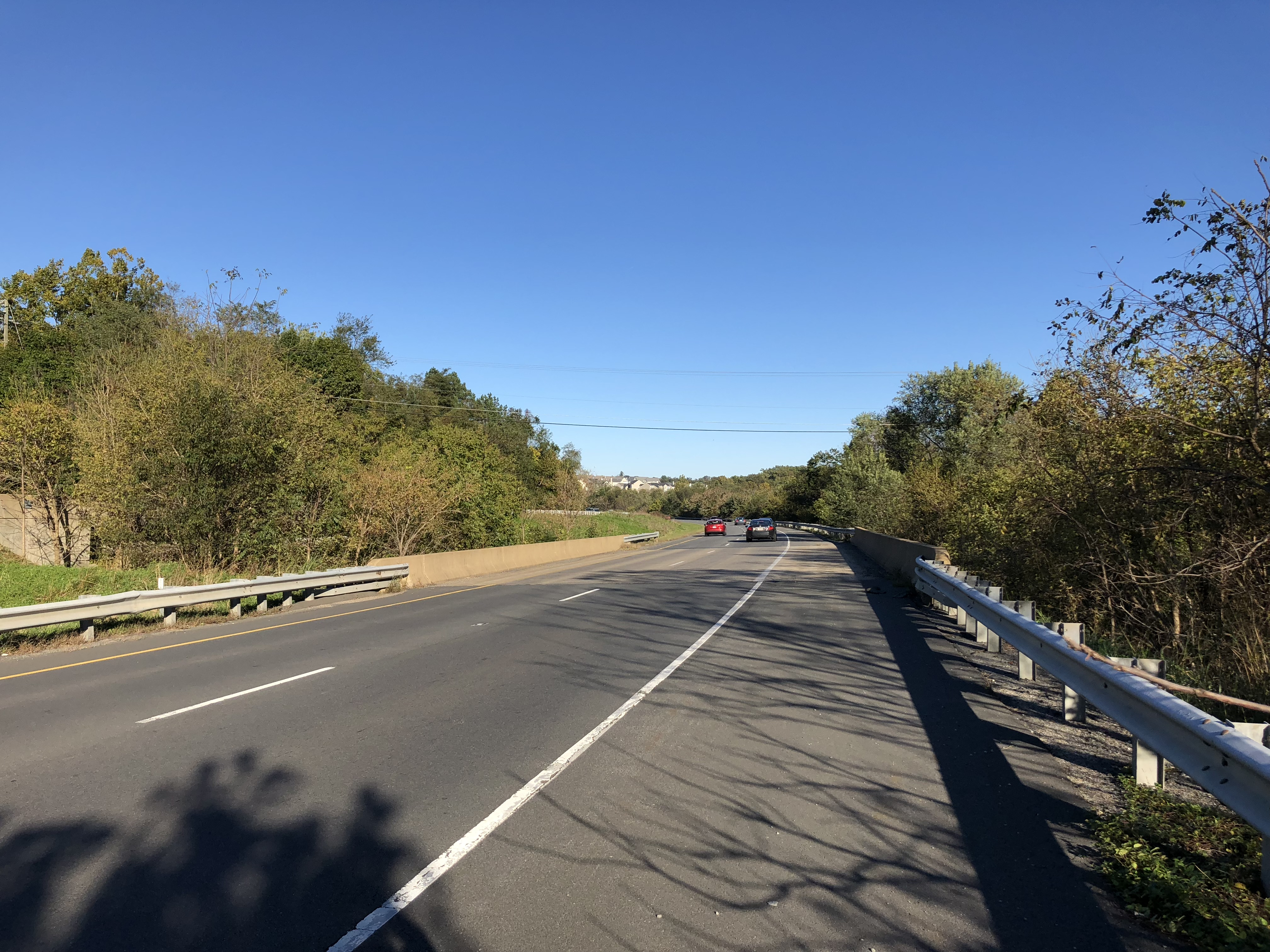 View east along Virginia State Route 7 (Harry Byrd Highway) just west of New Cut Road (Virginia State Route 719) in Round Hill, Loudoun County, Virginia